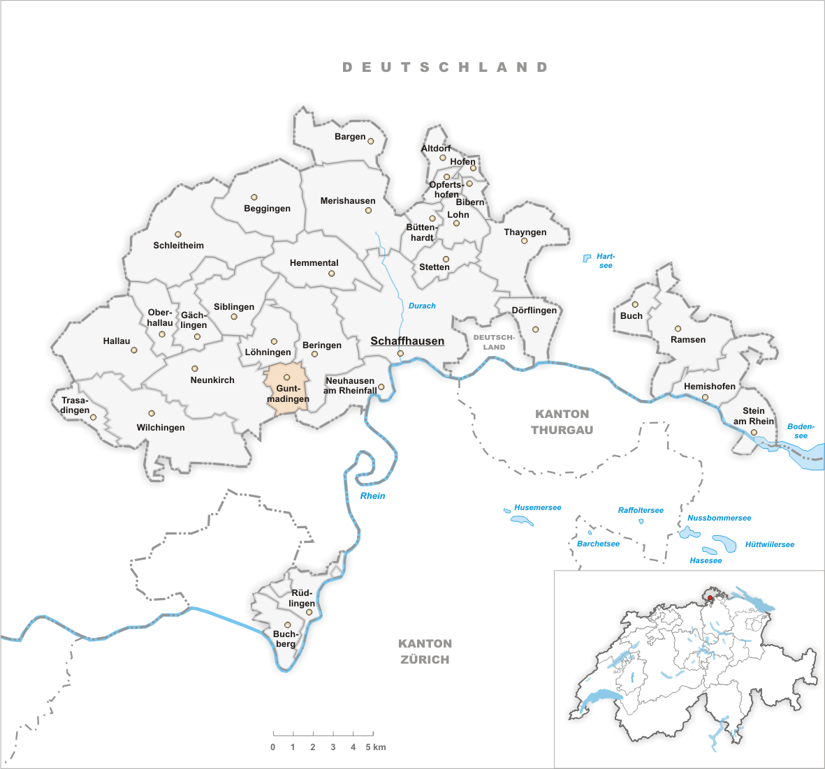 Municipality Guntmadingen